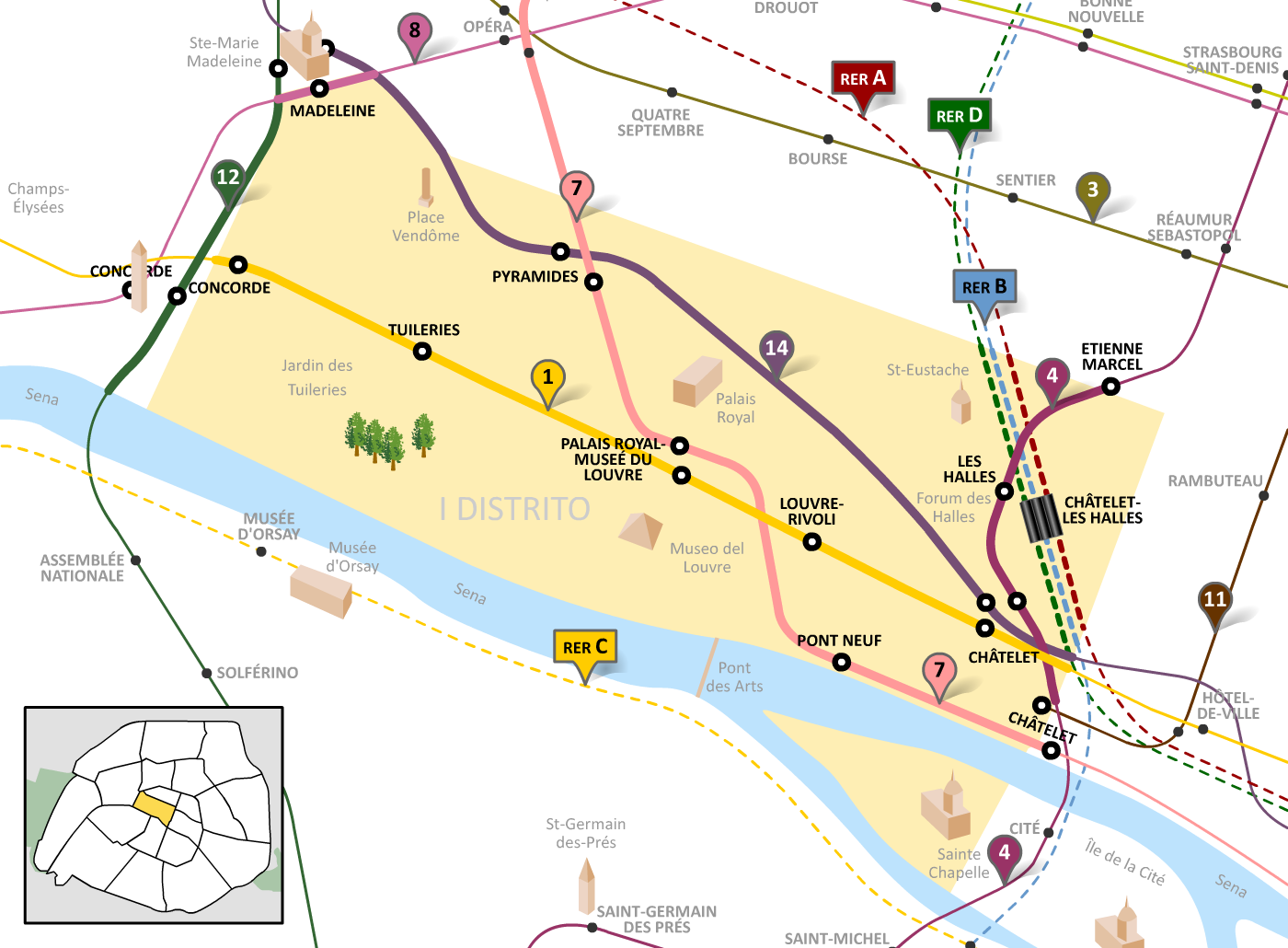 Paris 1st district (France), metro (subway) lines and RER. In spanish